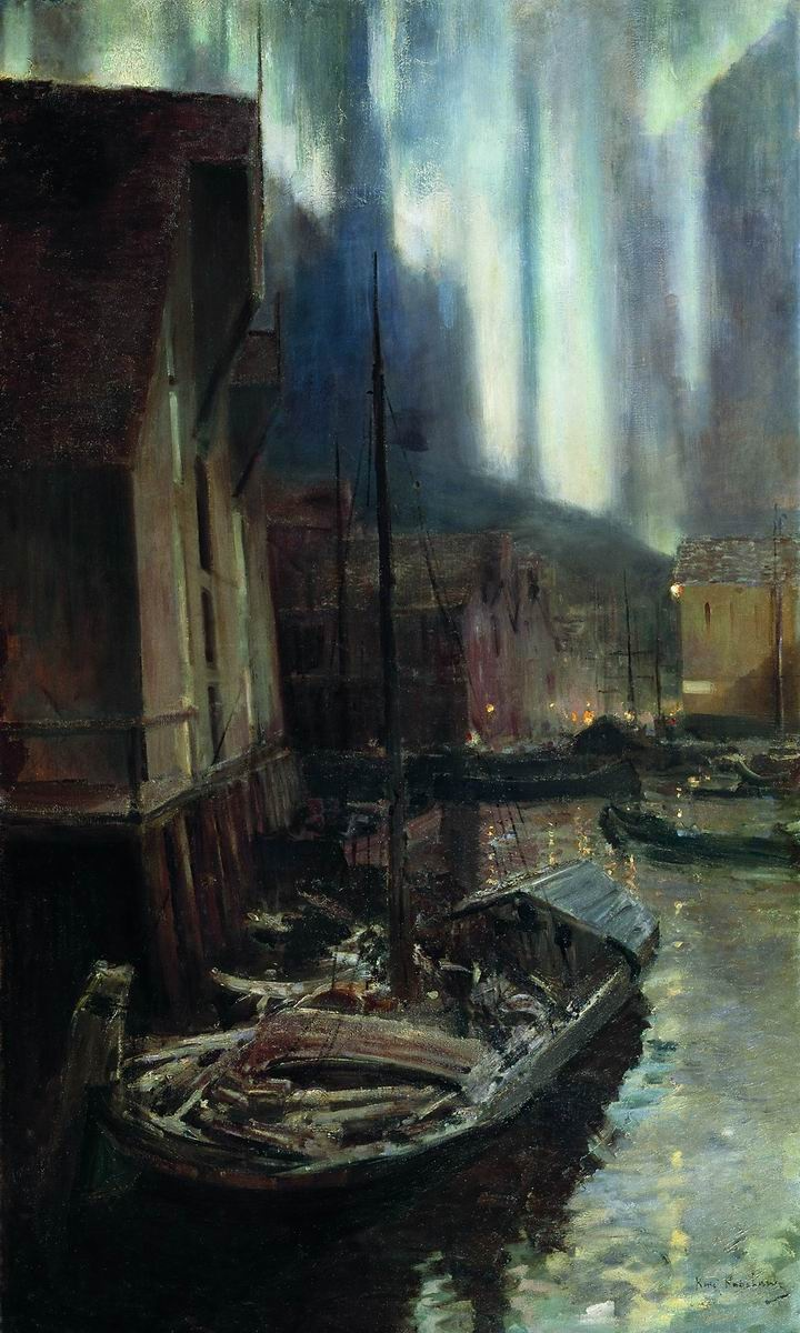 Hammerfest. Northern lights. Oil on canvas, 176×106 cm